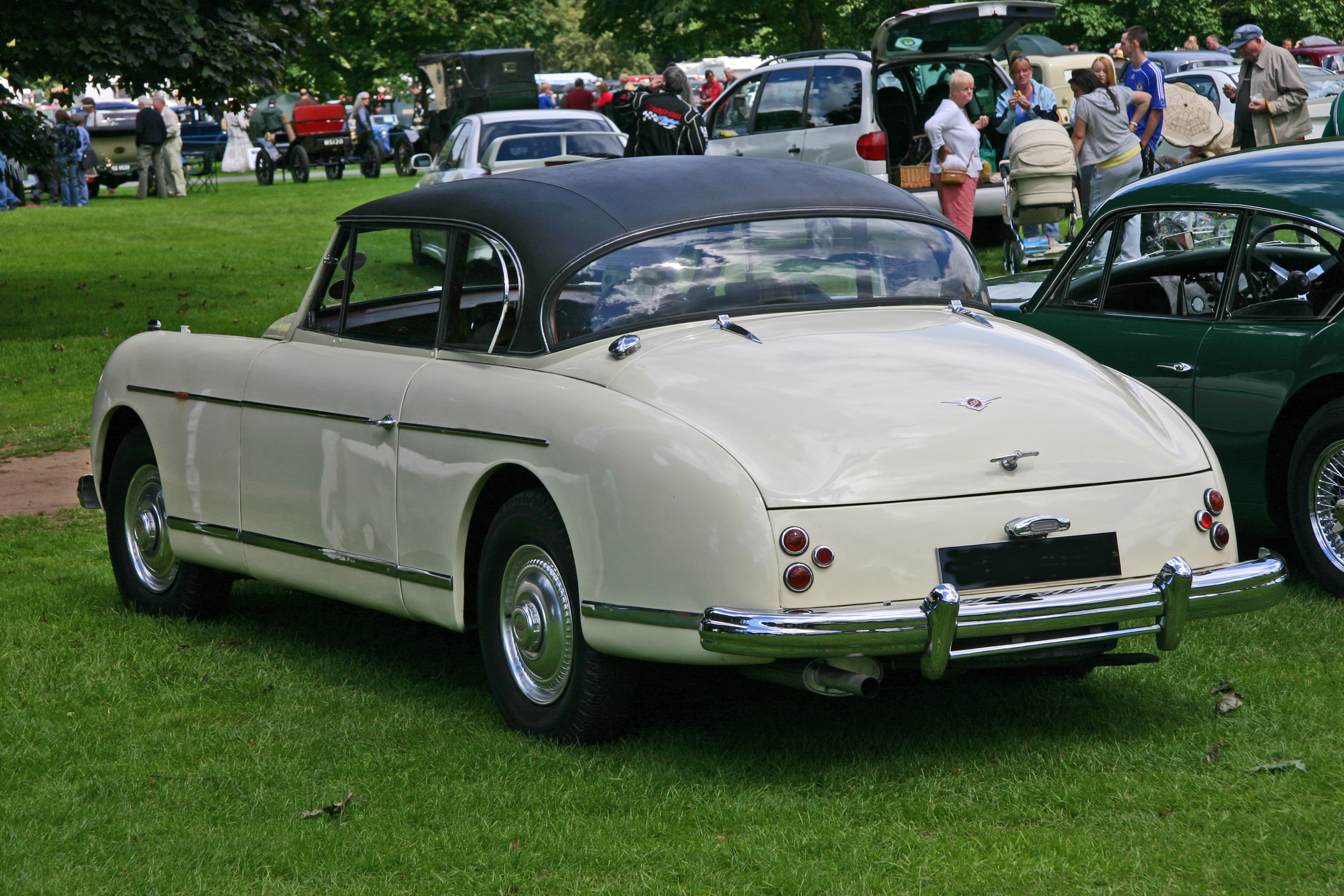 Jensen Interceptor 1954. Designed by Eric Neale, the Interceptor used aluminium panels on an Austin A70 chassis.